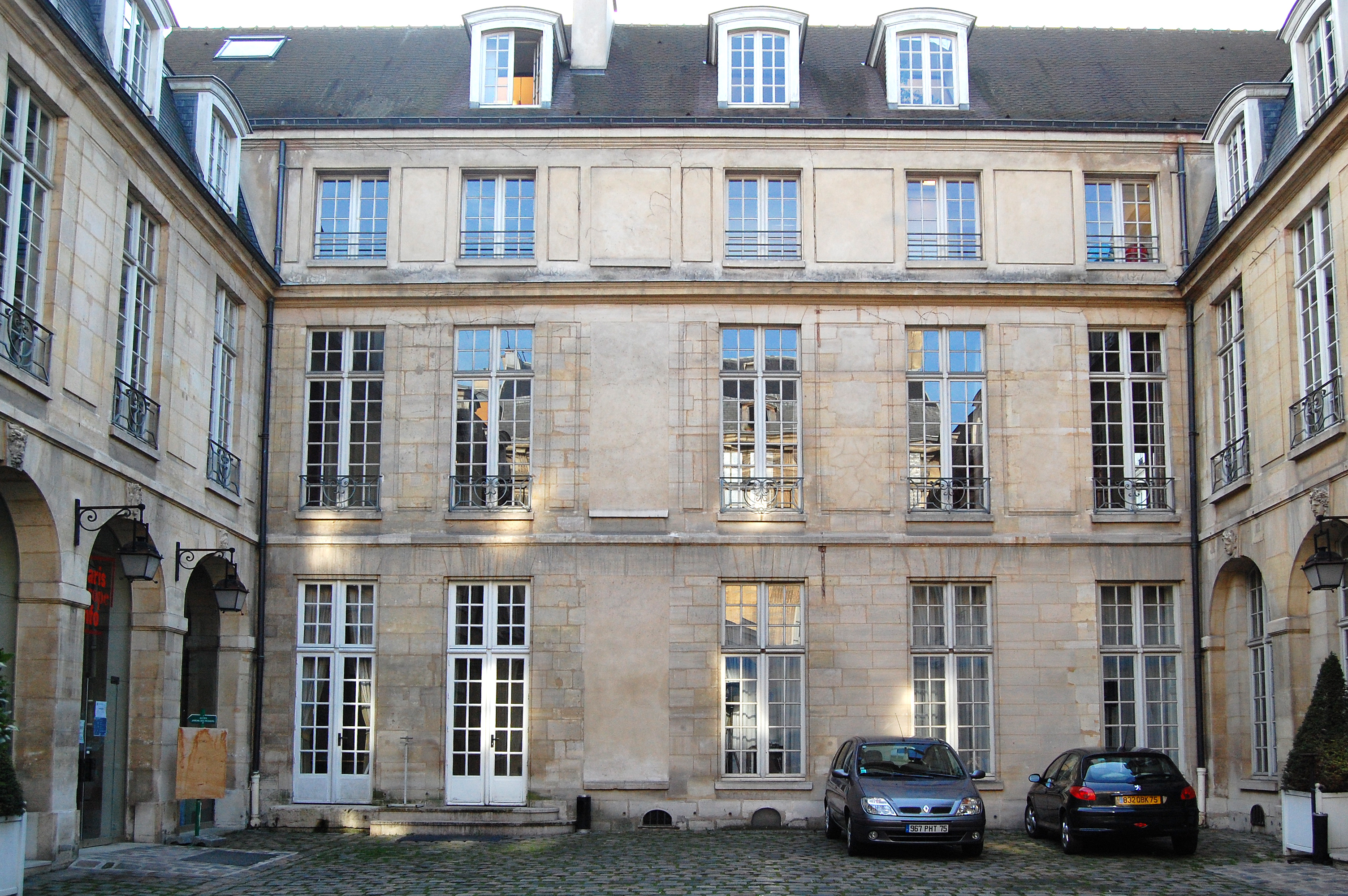 Hotel de Coulanges, Le Marais, Paris, France